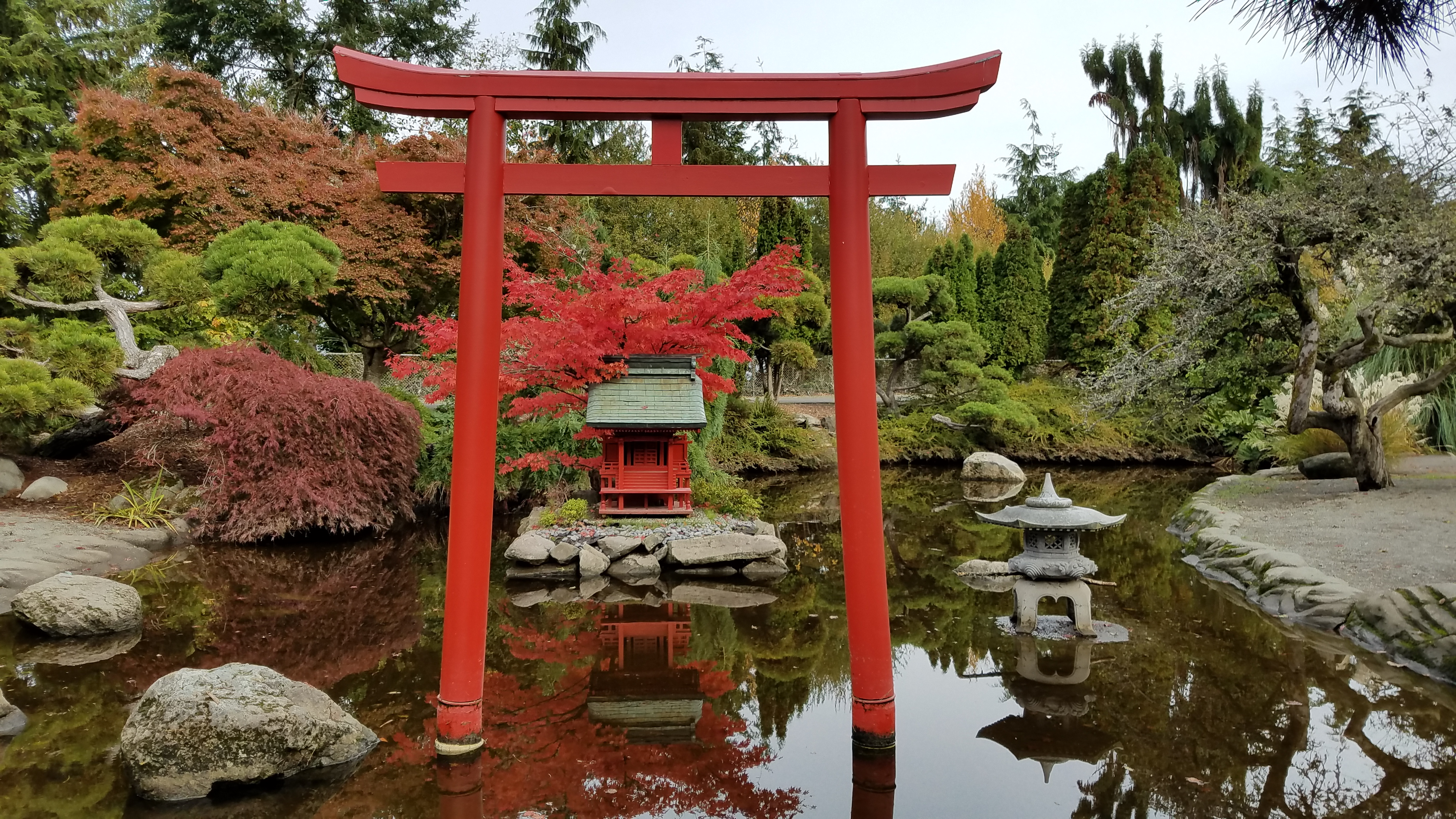 Chinese Garden at Point Defiance.